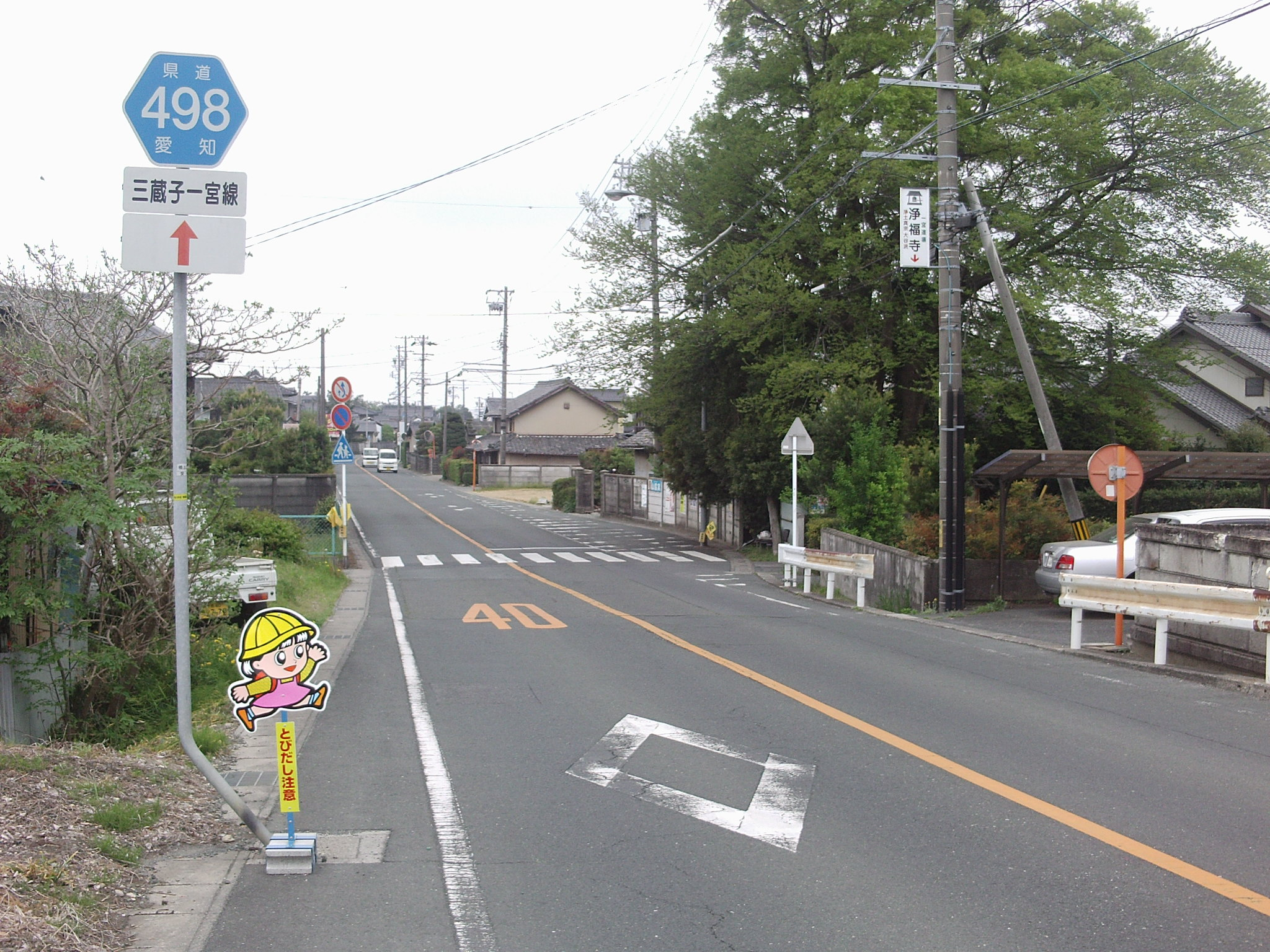 Aichi prefectural road No.498 in Ogicho, Toyokawa, Aichi.